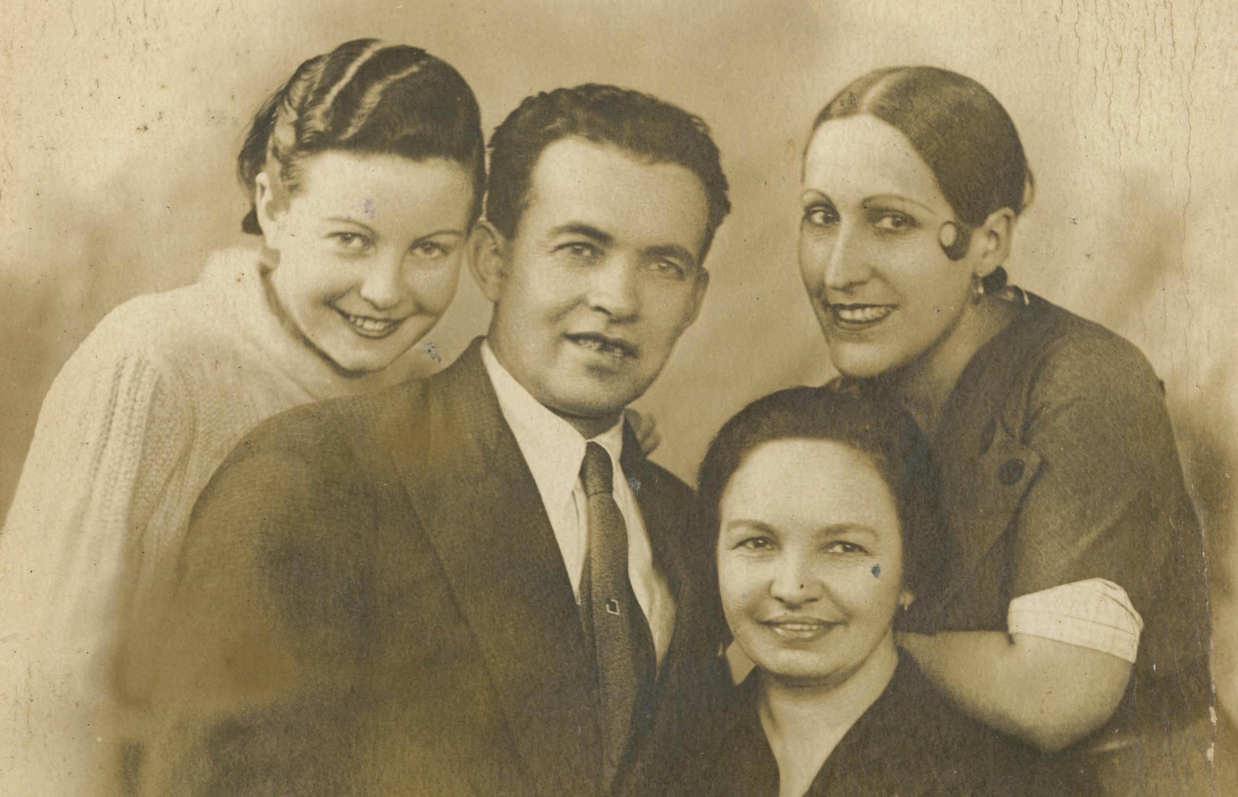 El maestro nacional, Nicolás Diez Valbuena, junto con su hija Dulce María y su esposa, Caridad Lueje Alea (abajo), acompañados por la maestra Pilar Villaverde.